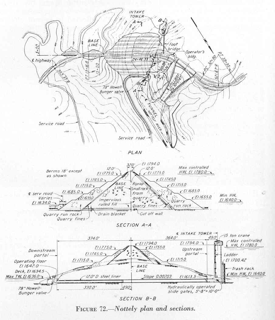 TVA's original design plan for Nottely Dam, which impounds the Nottely River in Union County, Georgia, USA.